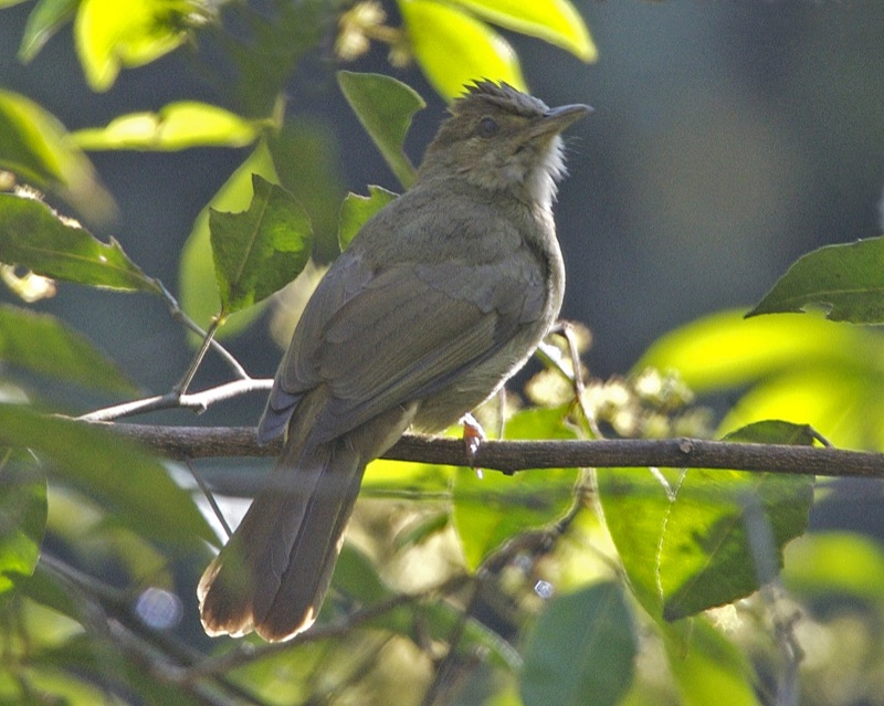 Buff-vented Bulbul Iole crypta - Clements 2018 Khao Yai, Thailand 18th. January 2009 690V1719